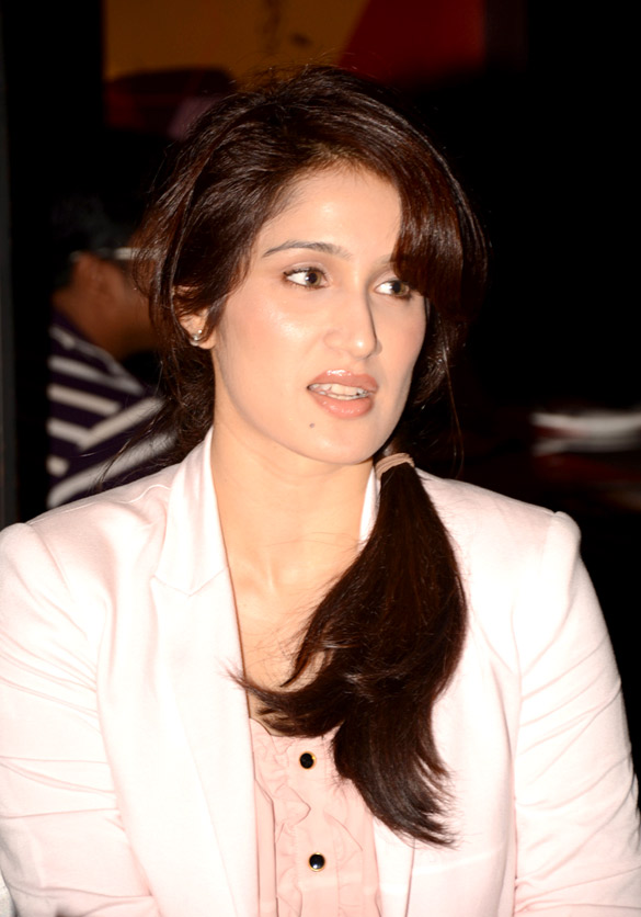 Sagarika Ghatge graces Citrus Check Inns' event